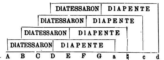 Fourths and fifths. Drawings [1]